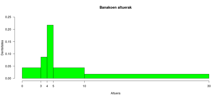 This chart was created with R. Density histogram. Source code: x=c(0.5,1.6,1.9,3.1,3.2,4.2,4.8,4.9,4.4,4.7,5.2,7.4,6.8,6.5,9,14,22,18,13,14,22,26,29) png("histograma_tarte_zabalera_desberdina_002.png" ,width=900,height=400) hist(x,breaks=c(0,3,4,5,10,30),col=c("green"), xlab="Altuera",las=1,ylab="Dentsitatea", main="Banakoen altuerak",cex.lab=1,xaxt="n",ylim=c(0,0.25)) axis(1,at=c(0,3,4,5,10,30),cex.axis=1) dev.off